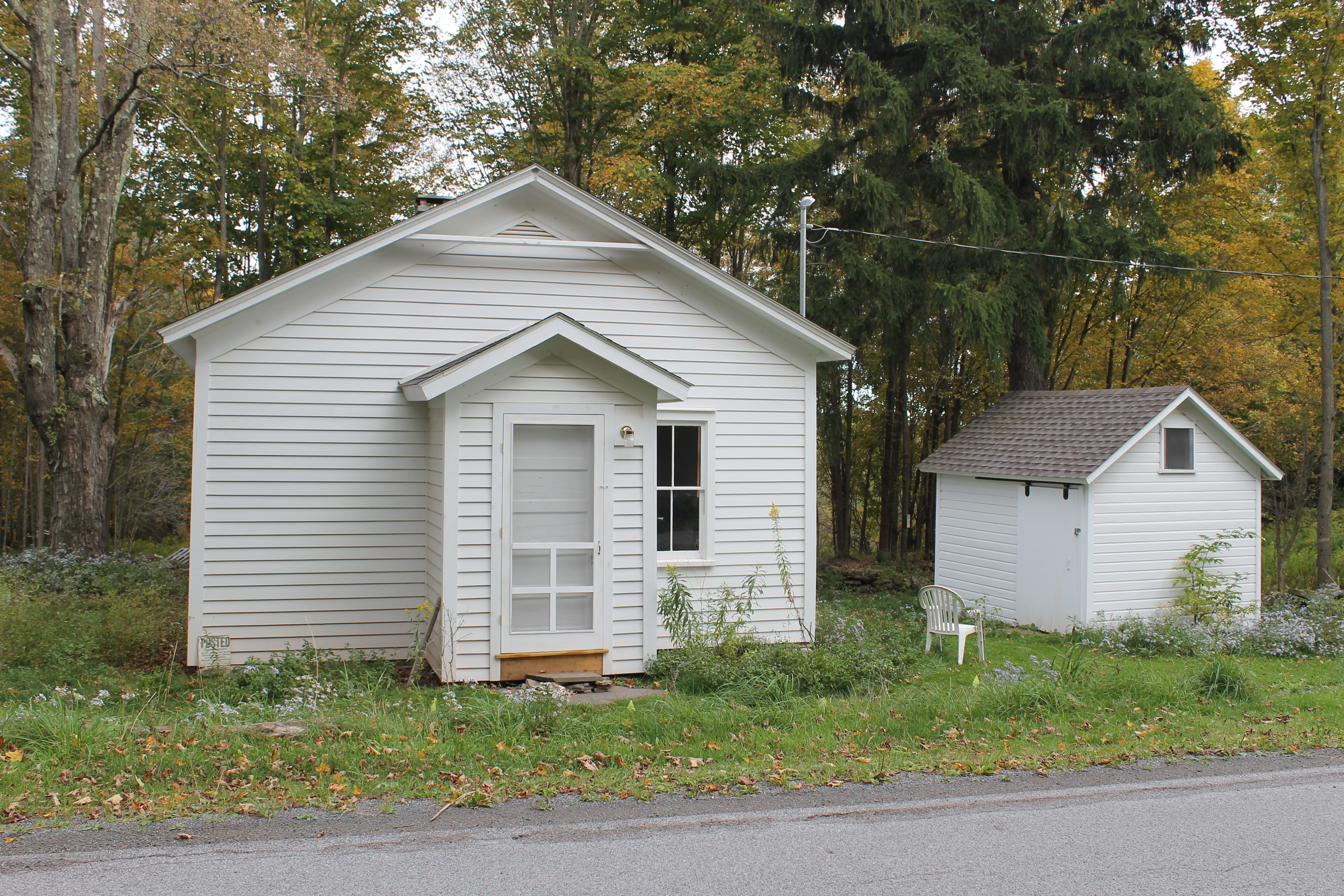 Schoolhouse No. 5